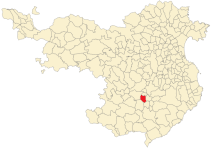 Aiguaviva